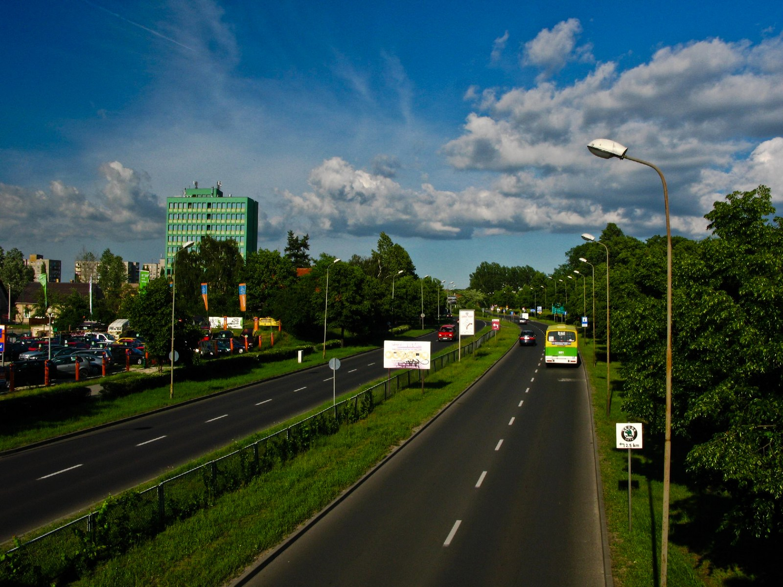 Wojska Polskiego alley